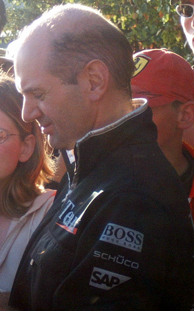 Adrian Newey in July 2004